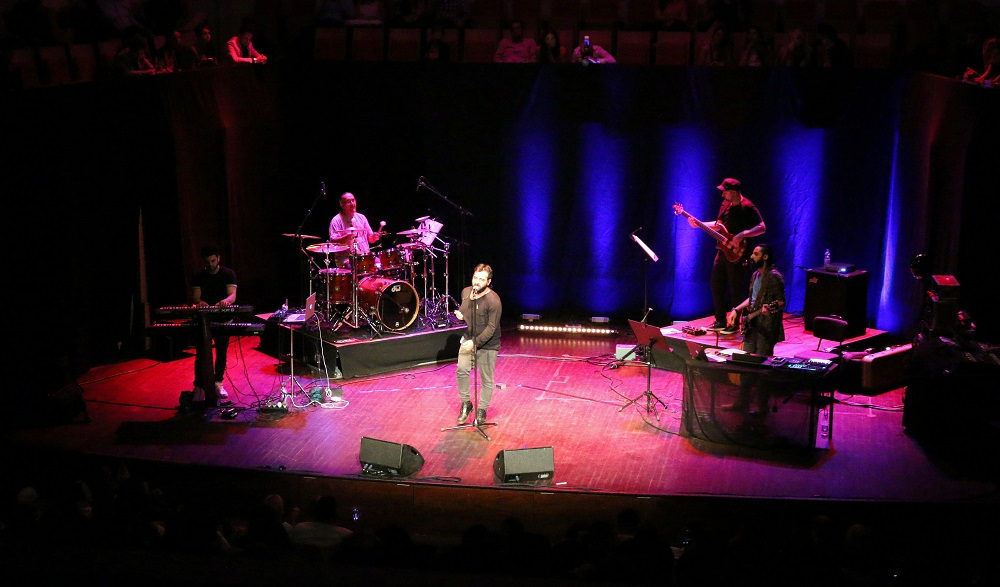 CHAARTAAR Persian Fusion Band; Concert in Rotterdam, Sep. 2016 -- Photo: Persian Dutch Network (